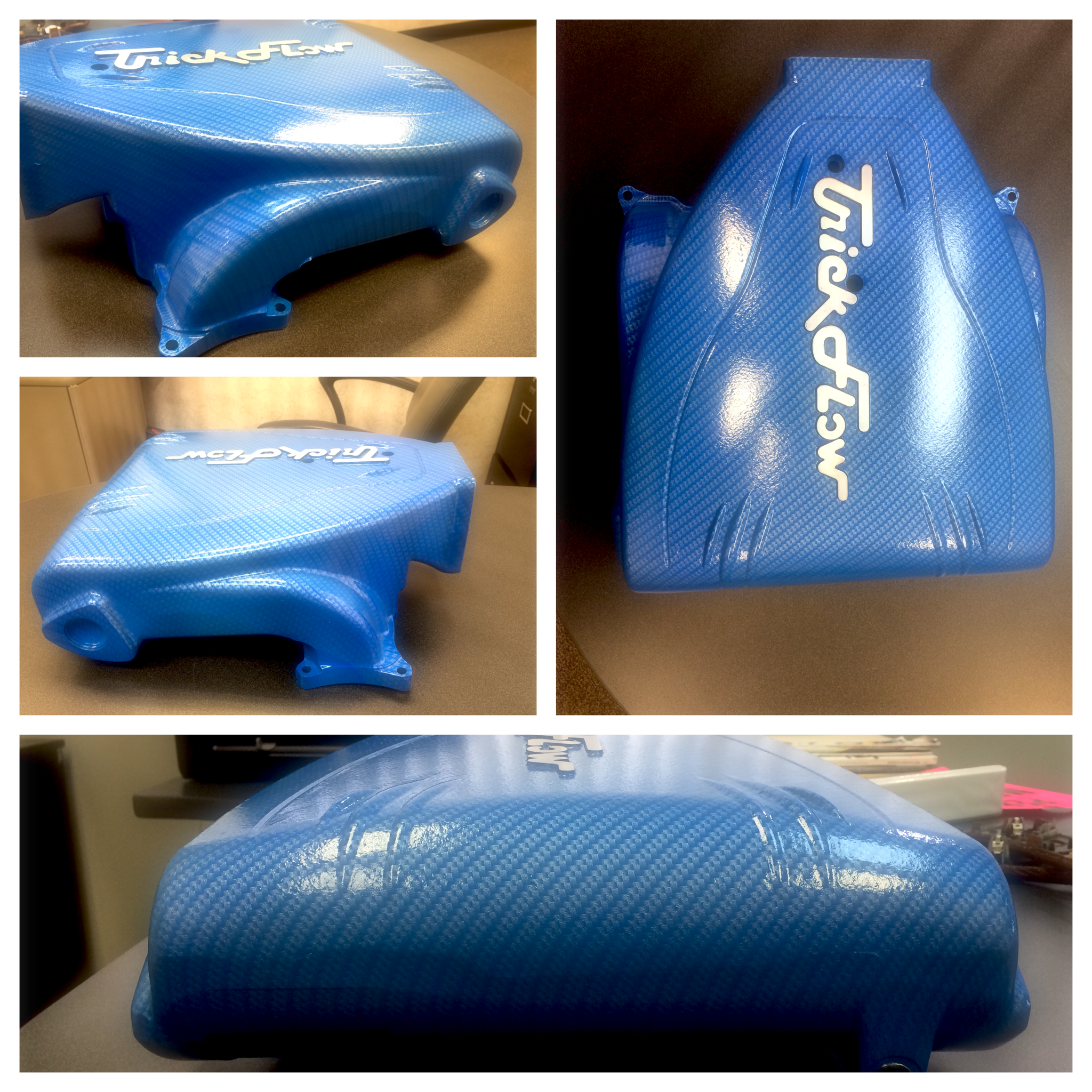 A Trickflow intake manifold for a 5.0 ford V8 hydro dipped